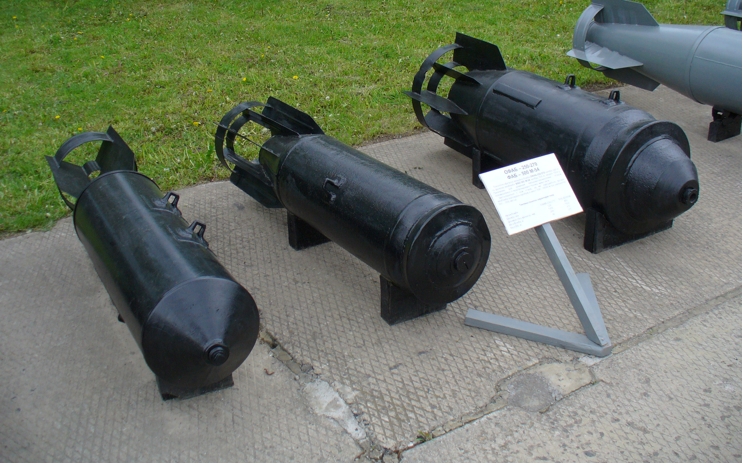 The Soviet/Russian bombs RBK-250, OFAB-250-270, FAB-500 M54. Ukrainian Air Force Museum in Vinnitsa.